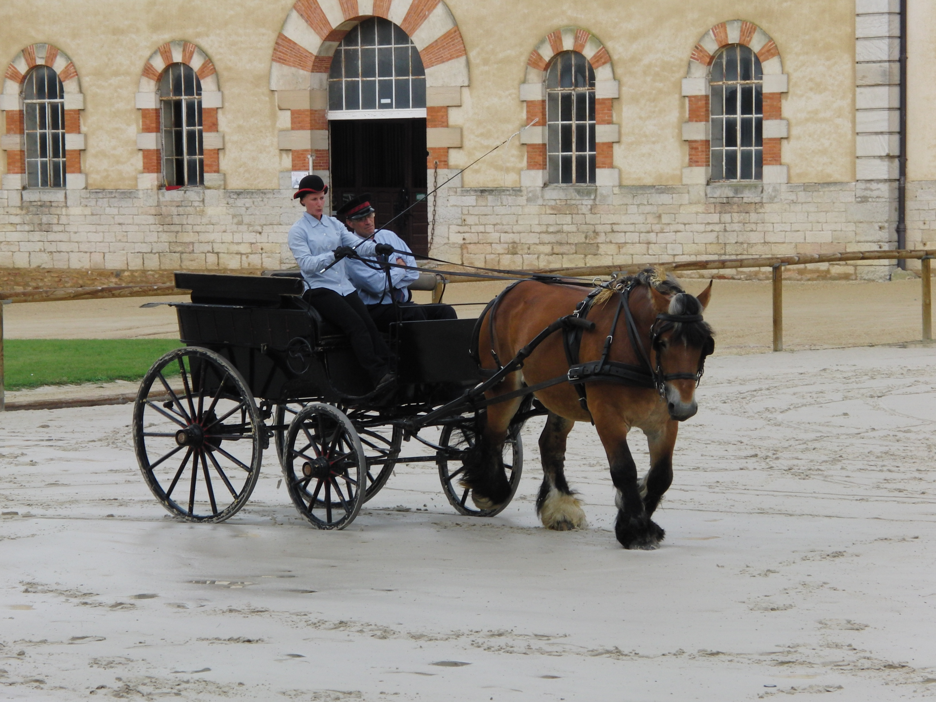 Horse driving - Auxois stallion - Haras de Cluny, Saône-et-Loire, France